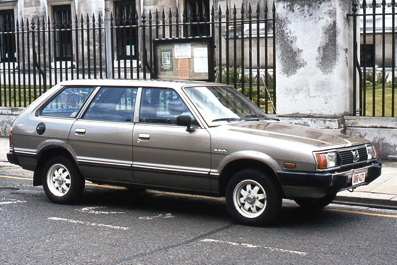 Subaru estate from Belgium photographed in Cambridge (GB) beside Hobson's Conduit